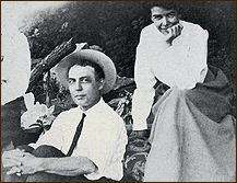 Paul Sawyier and Mary "Mayme" Bull